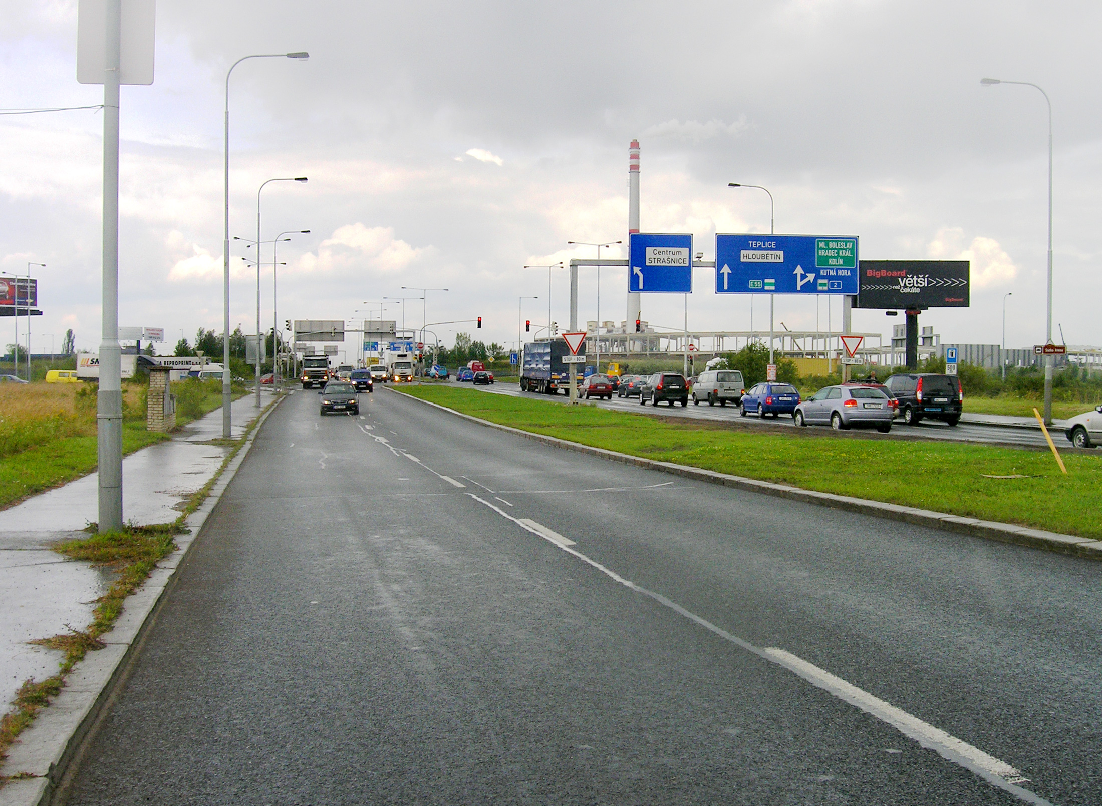 Průmyslová street - "Průmyslový polookruh" (Industrial semicircle) at Štěrboholy, Prague. Intersection with Černokostelecká street.